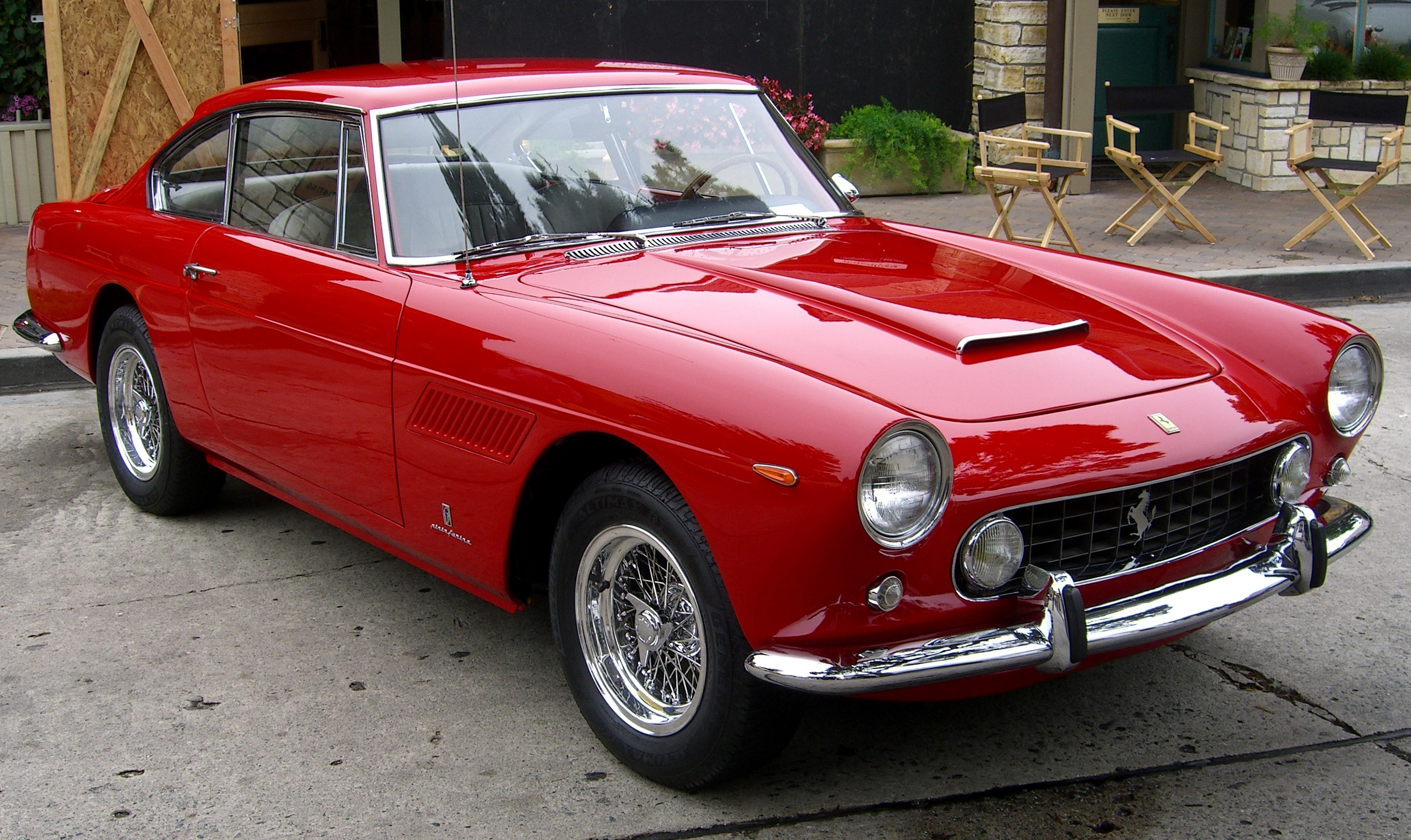 1962 Ferrari 250 GTE owned by M. Clark, Pacific Grove, California